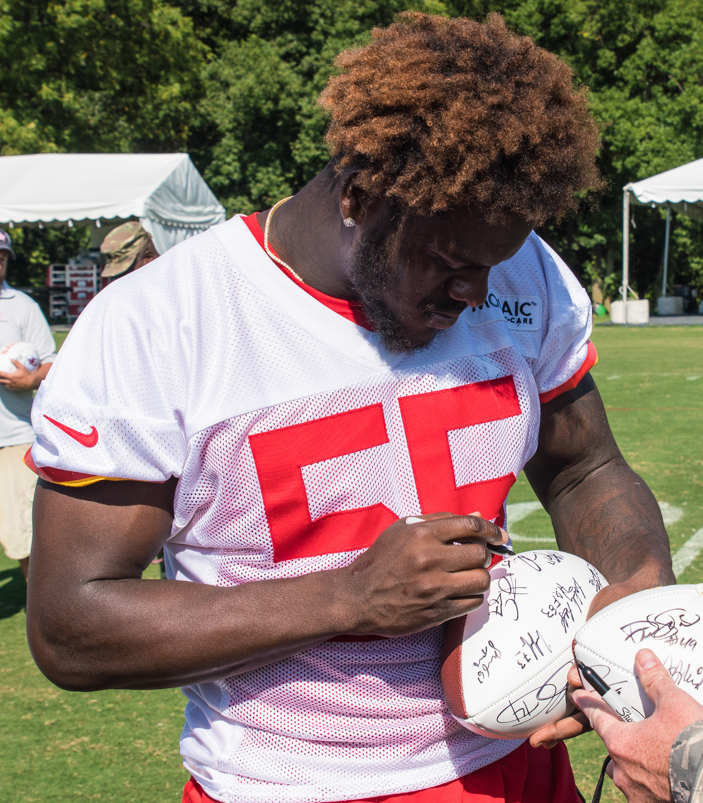 A U.S. Airman gets an autograph from Frank Clark, a defensive end for the Kansas City Chiefs, at the Chiefs Training Camp in St. Joseph, Missouri, Aug. 15, 2019. The Chiefs invited military members from across Kansas and Missouri to watch their final training camp practice as well as meet and greet the players. (U.S. Air National Guard photo by Tech. Sgt. Patrick Evenson)